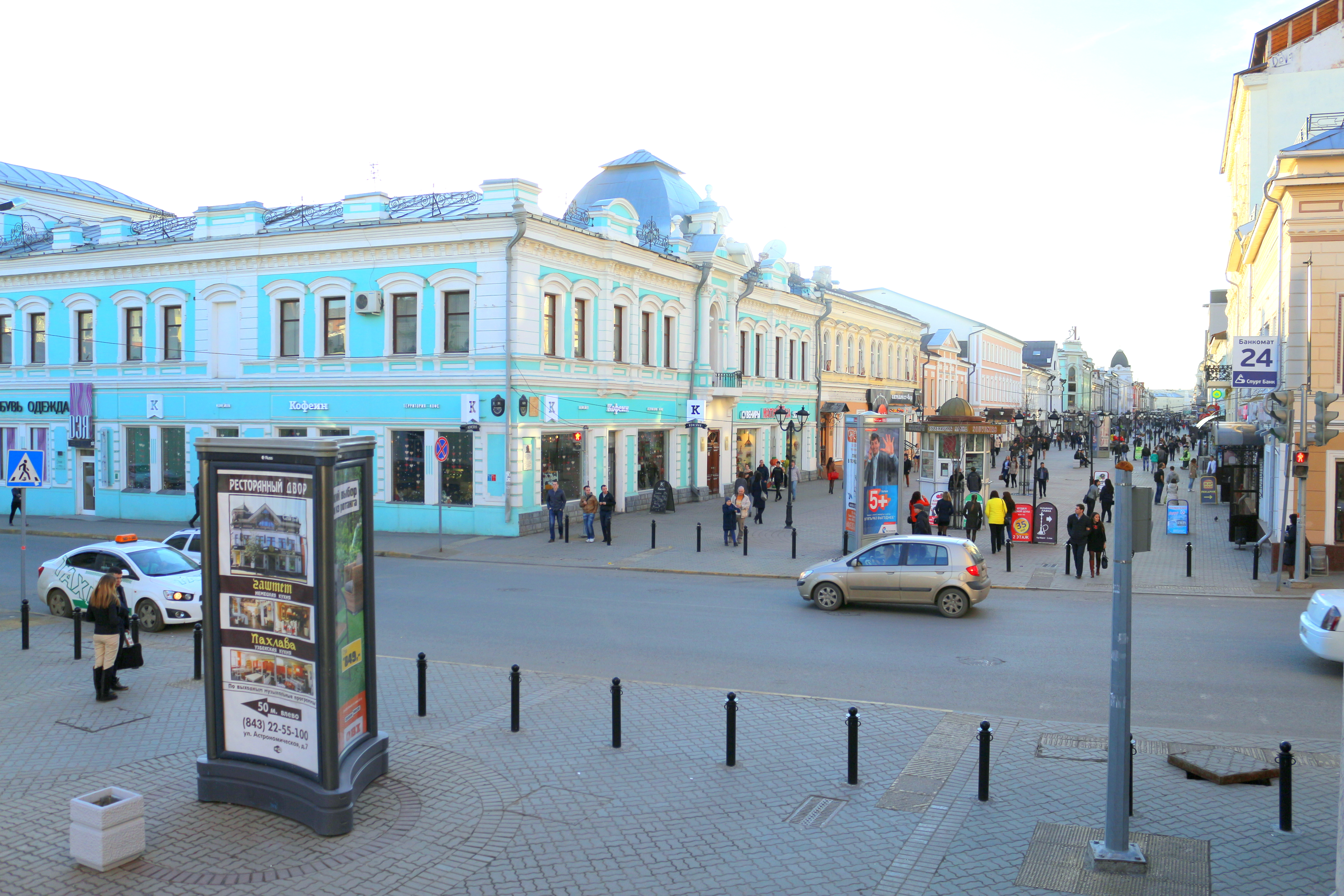 Bauman street